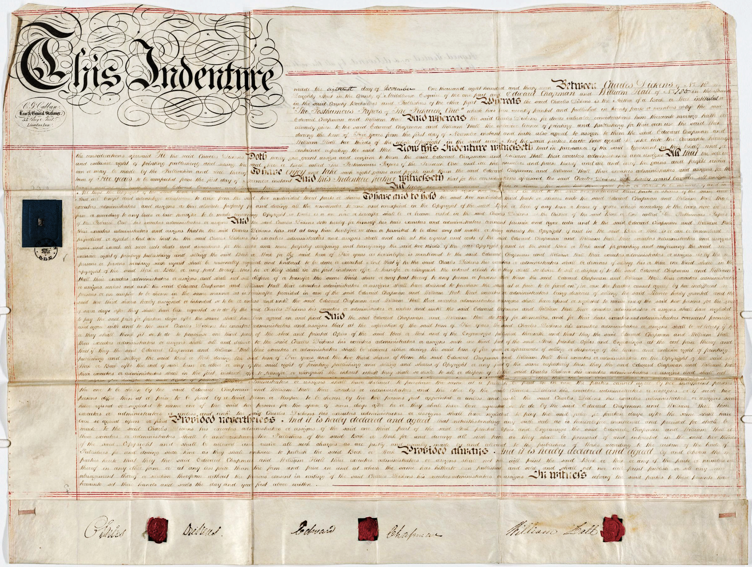 Manuscript contract with Chapman and Hall for the publication of the Pickwick Papers 18 November 1837, signed by Charles Dickens (1812-1870). HEW 2.10.3, Houghton Library, Harvard University